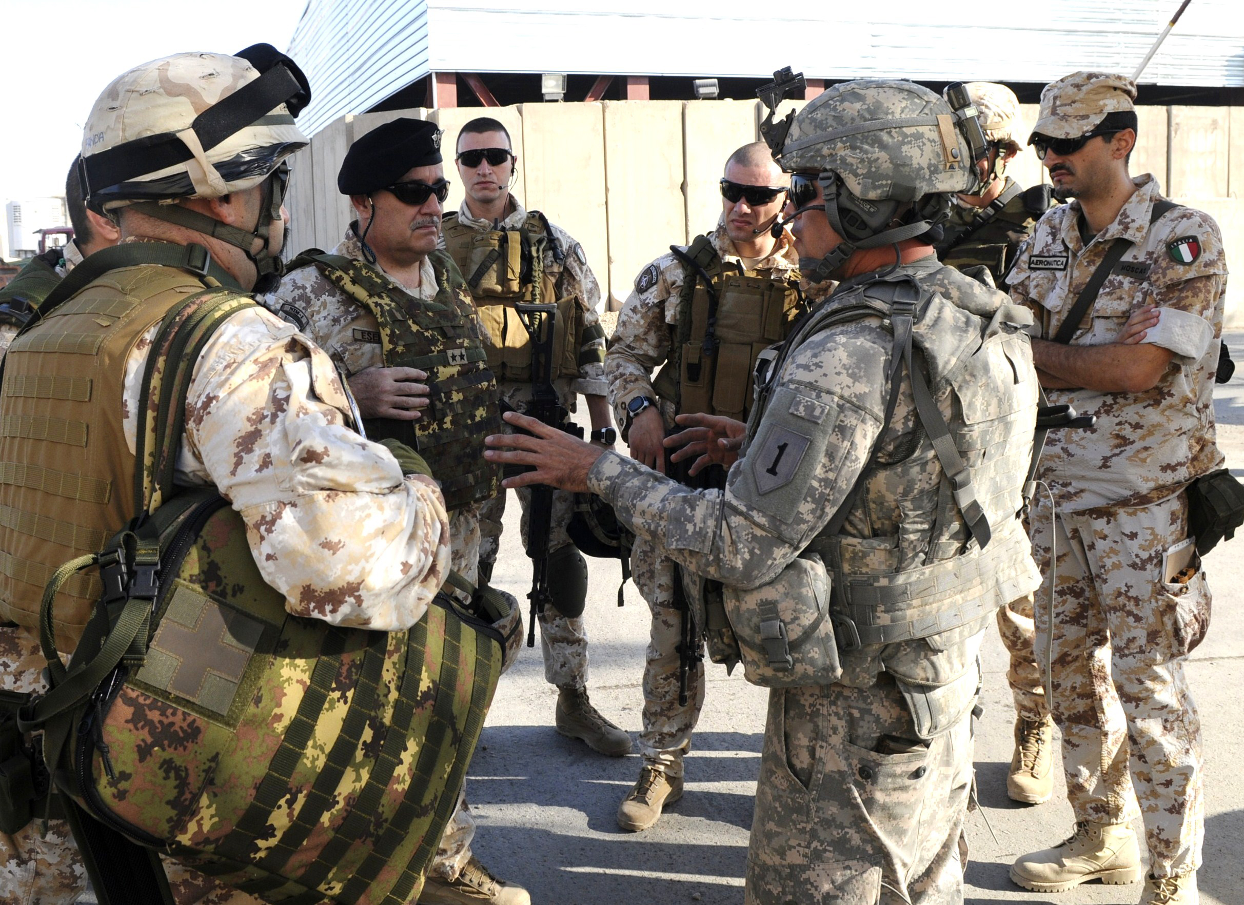 First Lt. Carlos Trujillo, right, a platoon leader in Battery B, 1st Battalion, 7th Field Artillery Regiment, 2nd Advise and Assist Brigade, 1st Infantry Division, United States Division- Center and an El Paso, Texas native, greets Italian Maj. Gen. Armentani, left, the Deputy Commanding General for the NATO Training Mission in Iraq, on Sept. 19, 2011 at the International Zone, Iraq. Trujillo briefed Armentani and his men prior to their movement to a construction site.